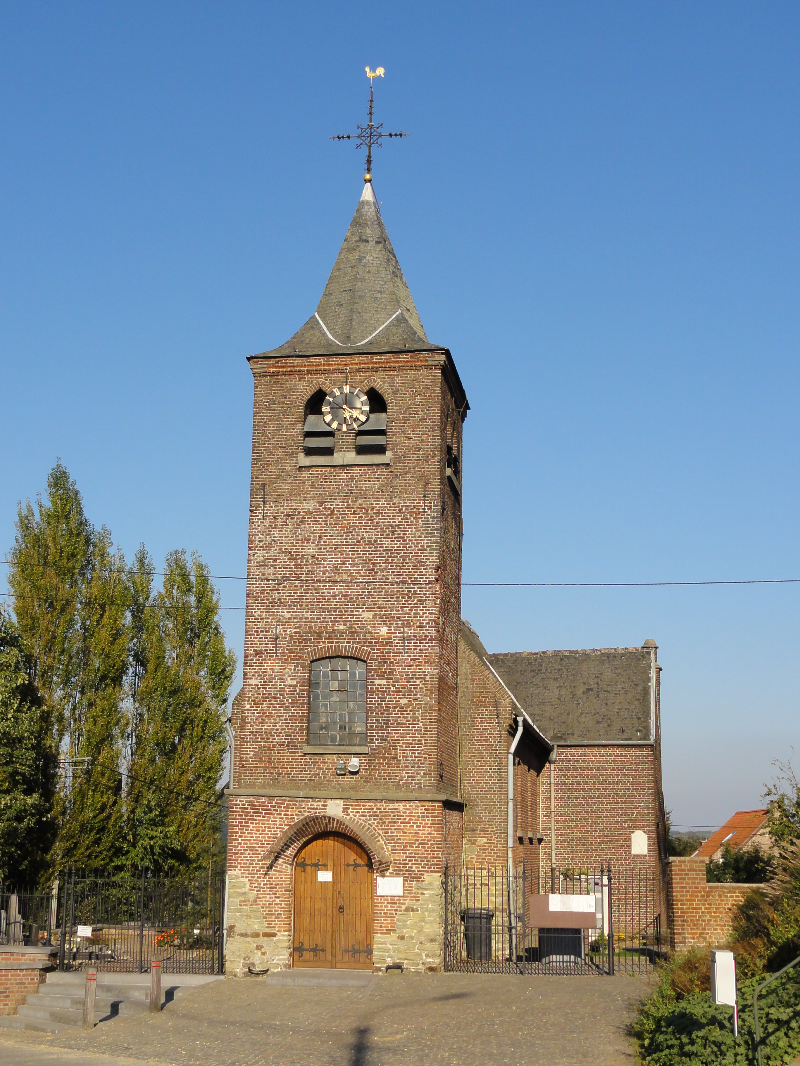 Sint-Petruskerk (Church of Saint Peter) in Kerkem. Kerkem, Maarke-Kerkem, Maarkedal, East Flanders, Belgium